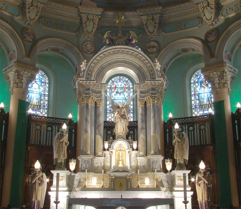 Church of Saints-Anges Gardiens, Lachine, Quebec, Canada. The main altar.